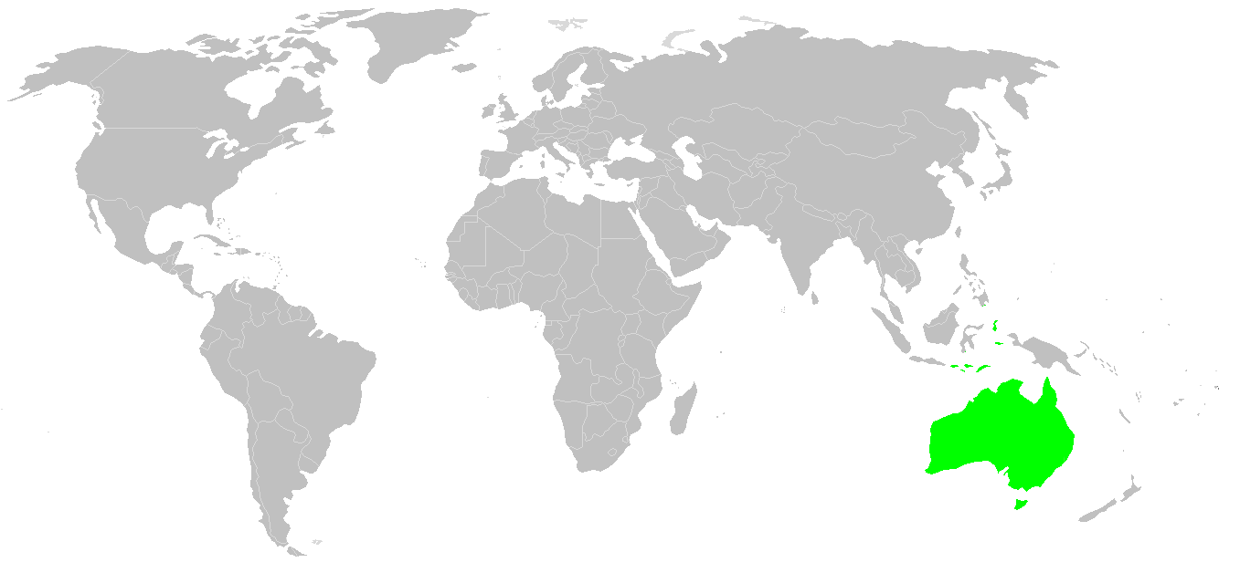 Distribution_Callistemon.png